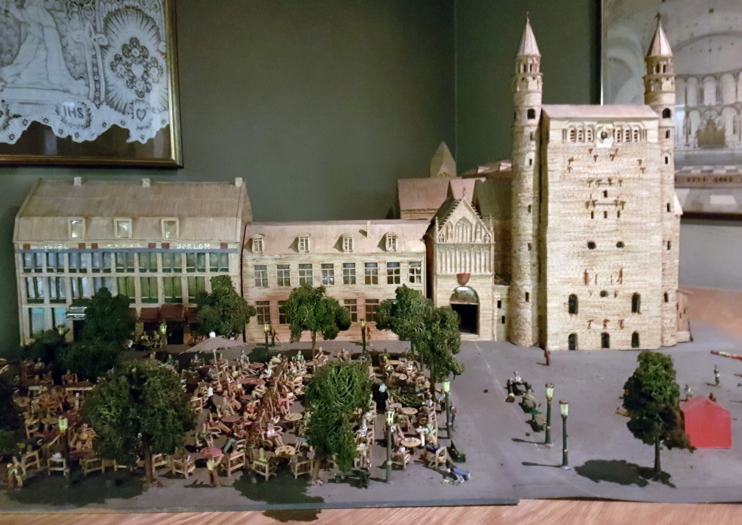 View of a scale model of Onze Lieve Vrouweplein and the Basilica of Our Lady in Maastricht, the Netherlands. The maquette is on display in the church treasury.